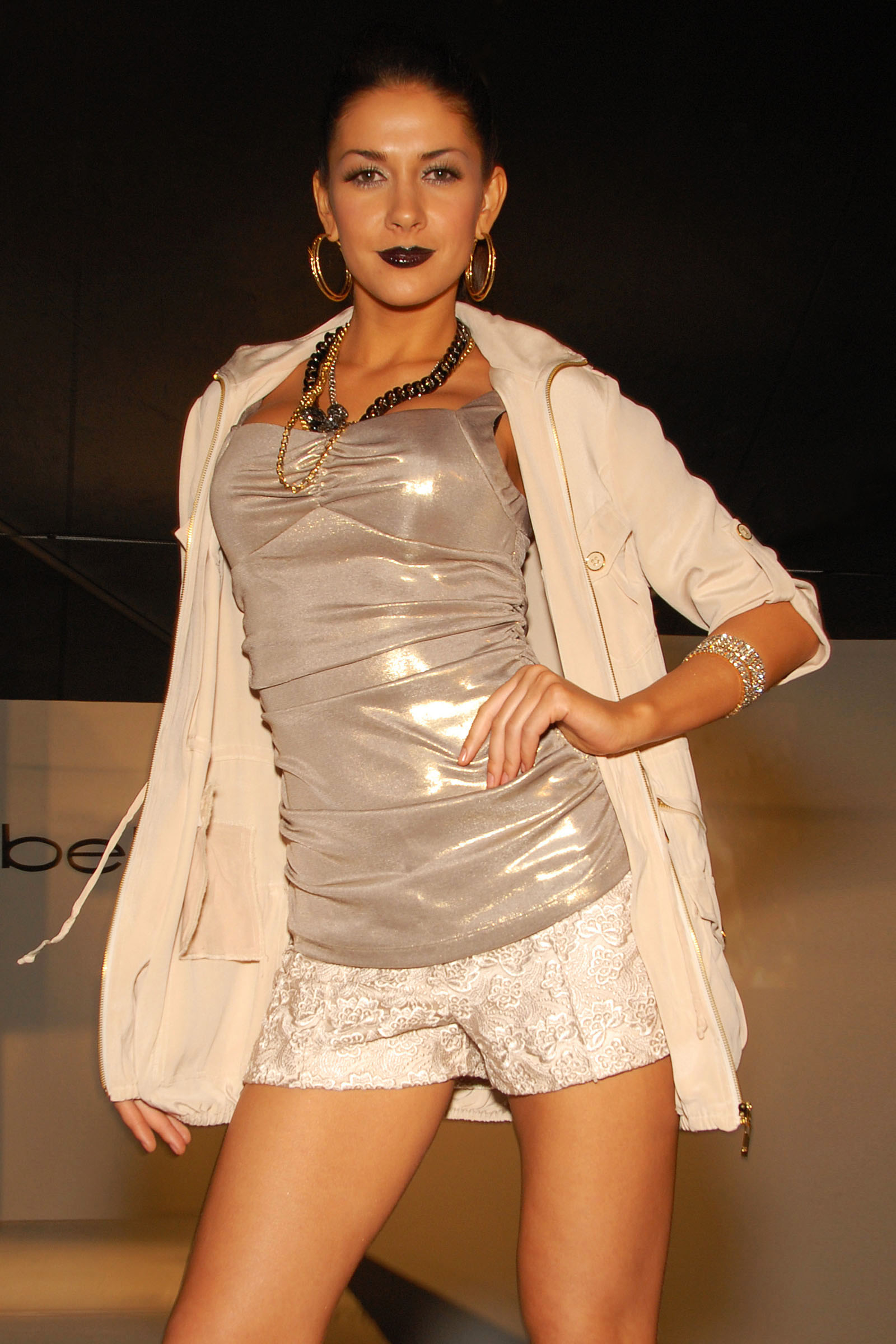 Bebe Hot Pants modeled by Larysa Poznyak - Photo by Glenn Francis of